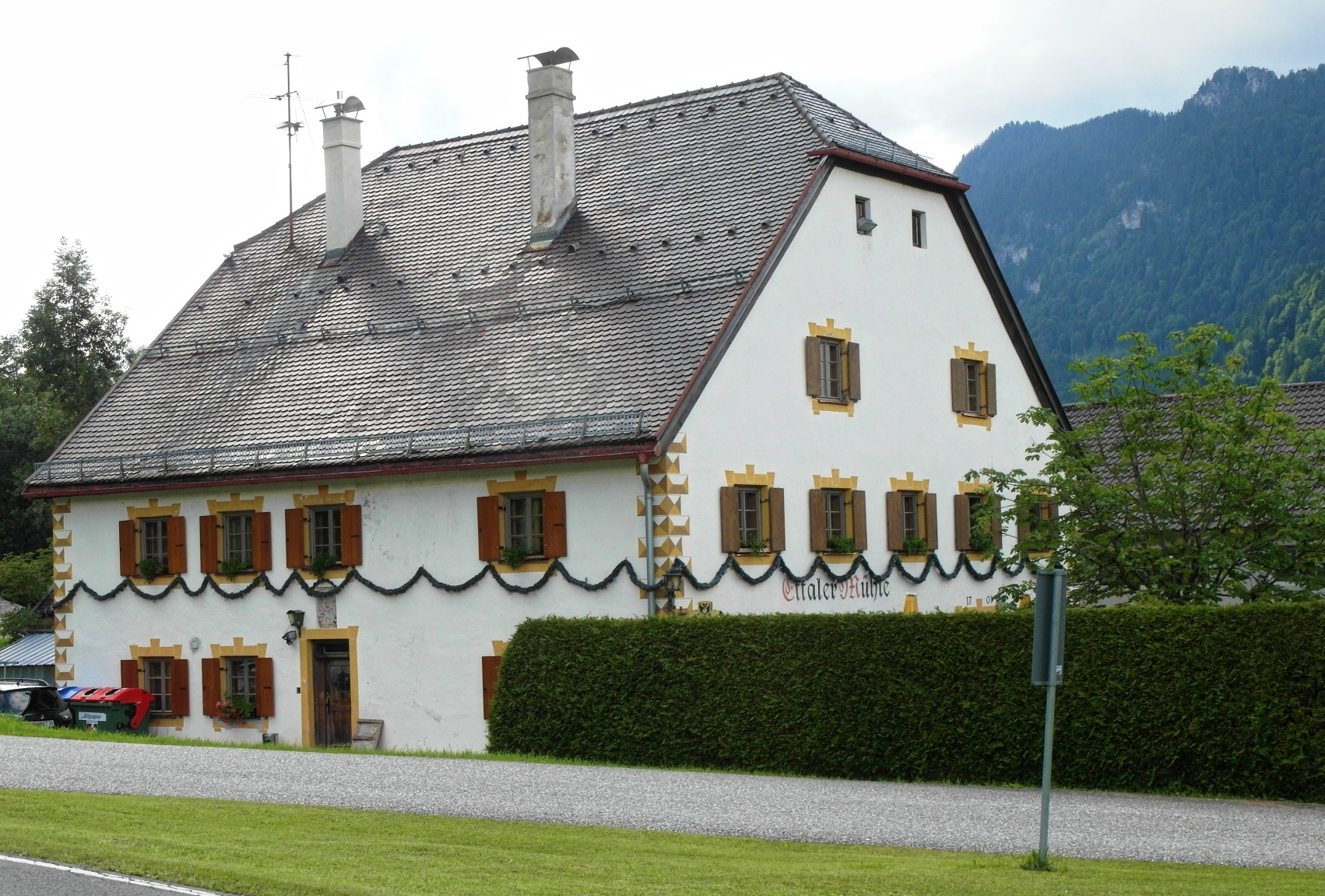 Guest house "Ettaler Mühle", formerly a water mill; near Ettal, Bavaria, Germany